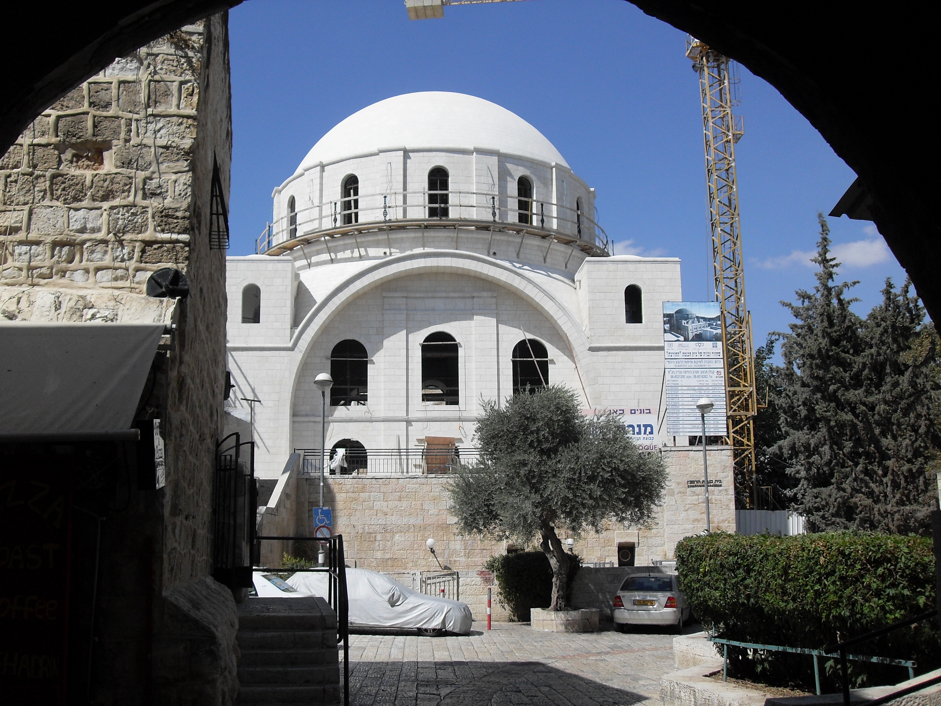 Old Jerusalem - Hurva Synagogue - september 2009